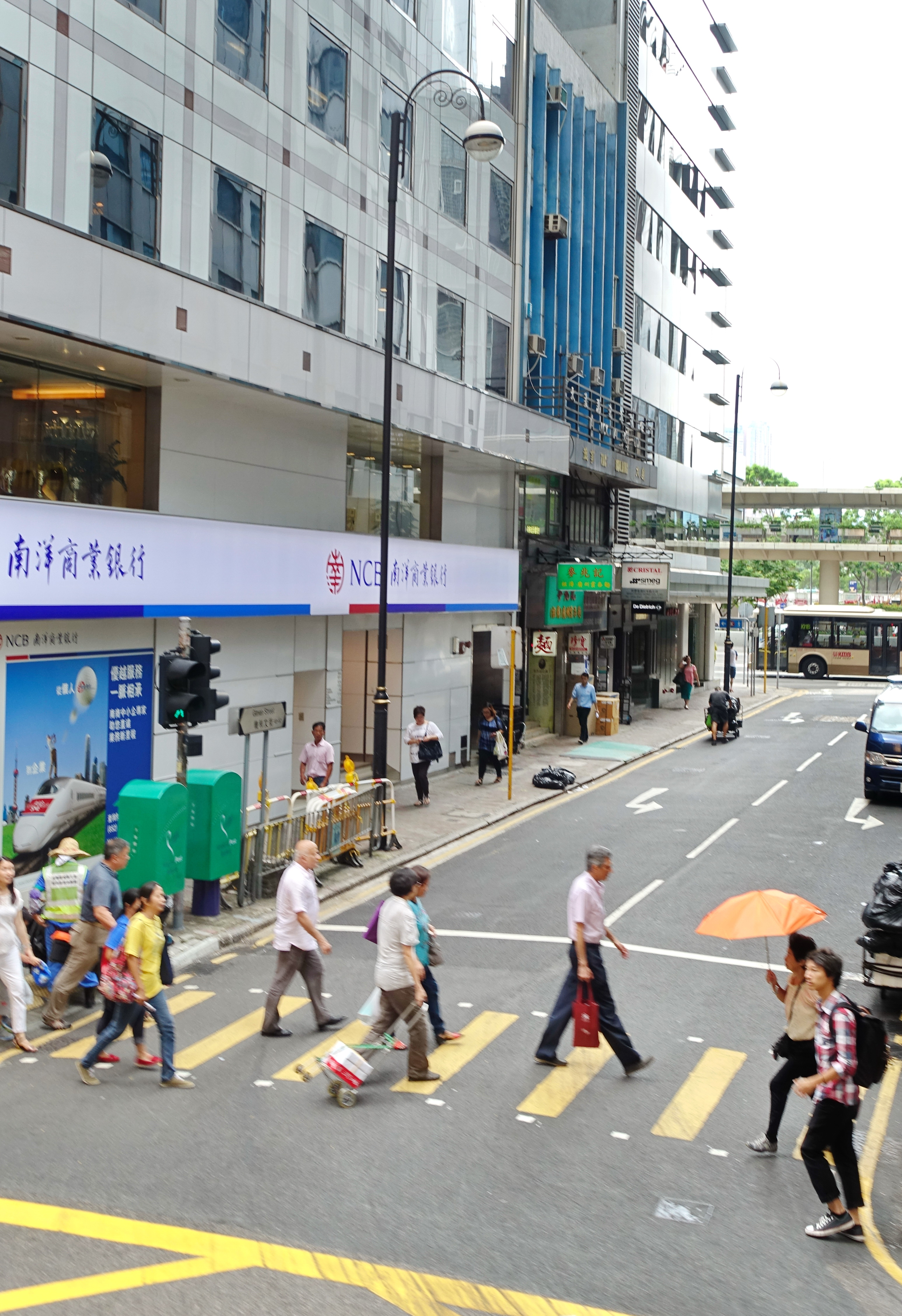 Gilman Street near Des Voeux Road Central, Hong Kong.